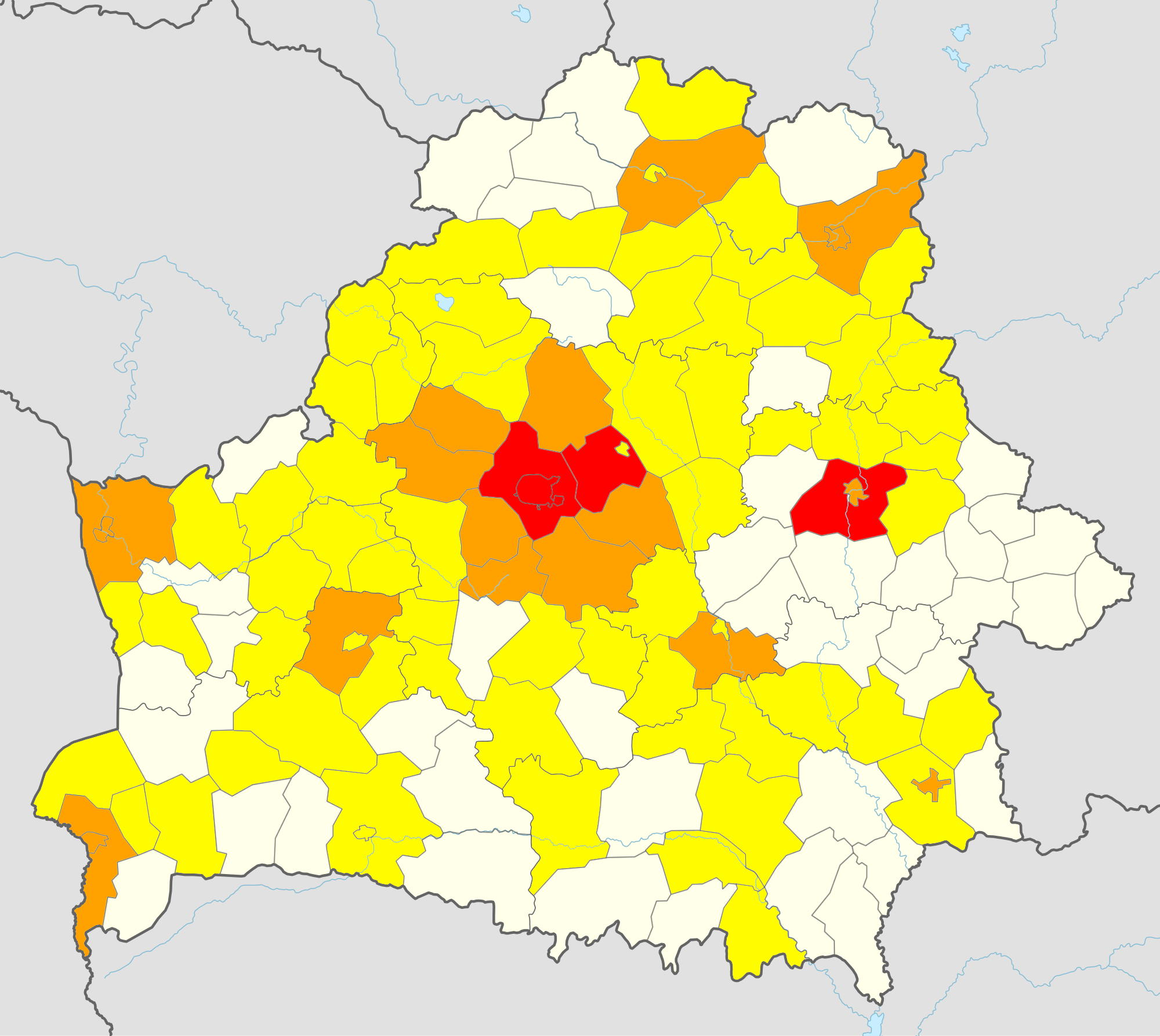 Number of small and medium registered business organizations per 1000 citizen. From white to red: less than 6; 6-10; 11-20; over 20